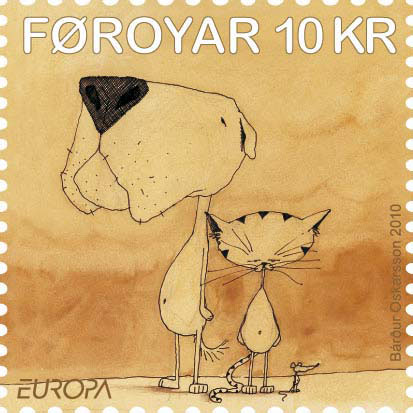 Stamps FO 688 of the Faroe Islands: Europa 2010 - Childrens books